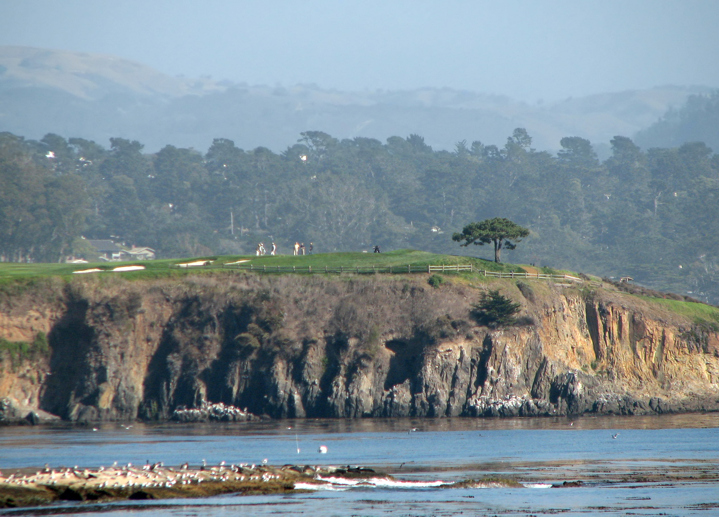 6th hole of the Pebble Beach Golf Links, California, USA